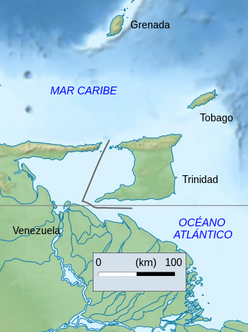 Geographic map of Trinidad and Tobago and surrounding countries, in Spanish